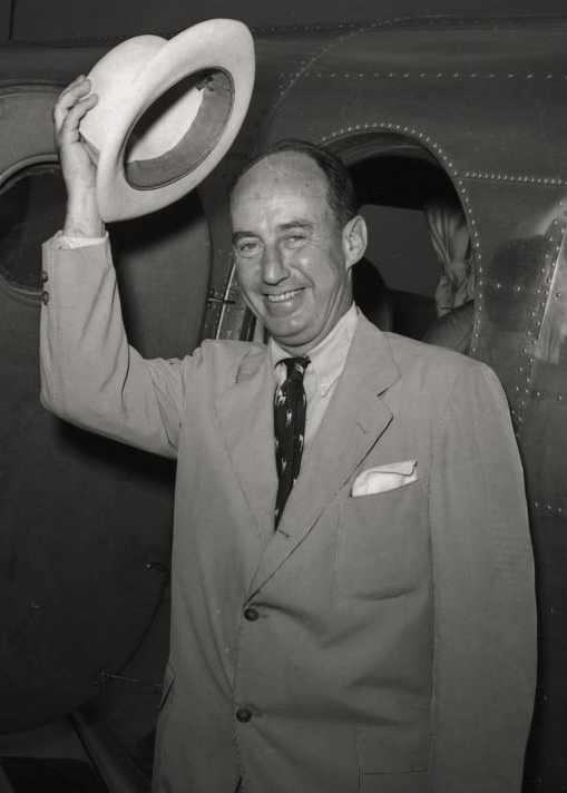 American presidential candidate Adlai Stevenson (1900-1965) at the Democratic National Convention, Chicago, Ill., July 1952